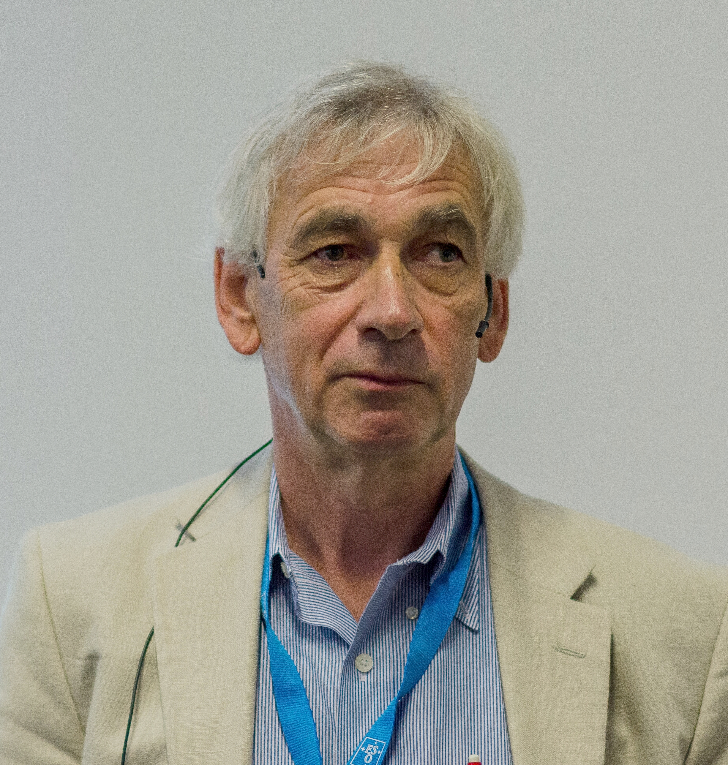 Taken during the first three days of the ESO@50 conference, celebrating 50 years of the European Southern Observatory. Held at ESO's headquarters in Garching near Munich, September 3–7, 2012.